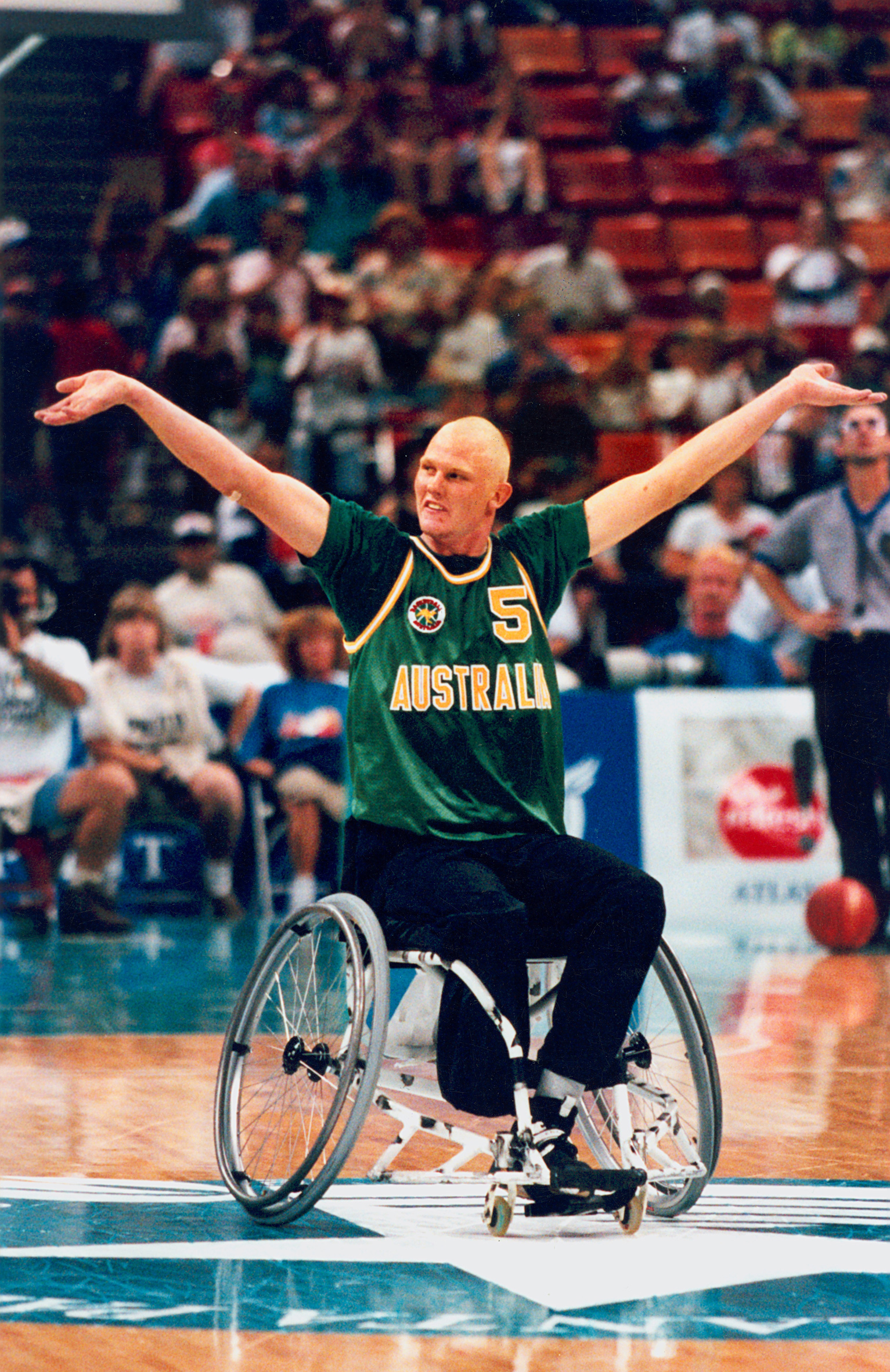 Australian men's wheelchair basketballer Troy Sachs encourages the crowd at the 1996 Summer Paralympics. More information about this project is on The History of the Paralympic Movement in Australia.